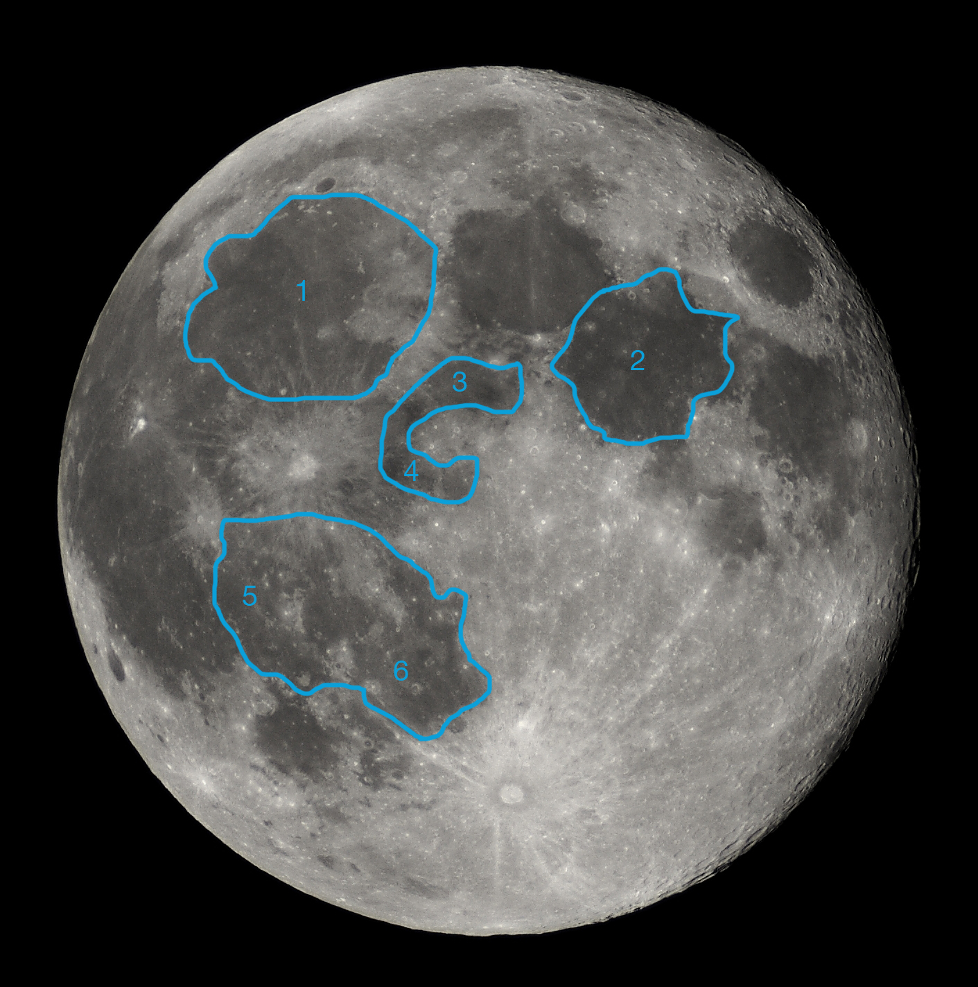 Common interpretation of the "Man in the Moon" on the surface of the moon as seen from earth. Key: The Sea of Showers (Mare Imbrium). The Sea of Tranquility (Mare Tranquillitatis). The Sea of Vapors (Mare Vaporum). The Sea of Islands (Mare Insularum). The Sea That Has Become Known (Mare Cognitum). The Sea of Clouds (Mare Nubium).